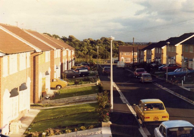 Cambourne Avenue, Laffak, Carr Mill approx 1980